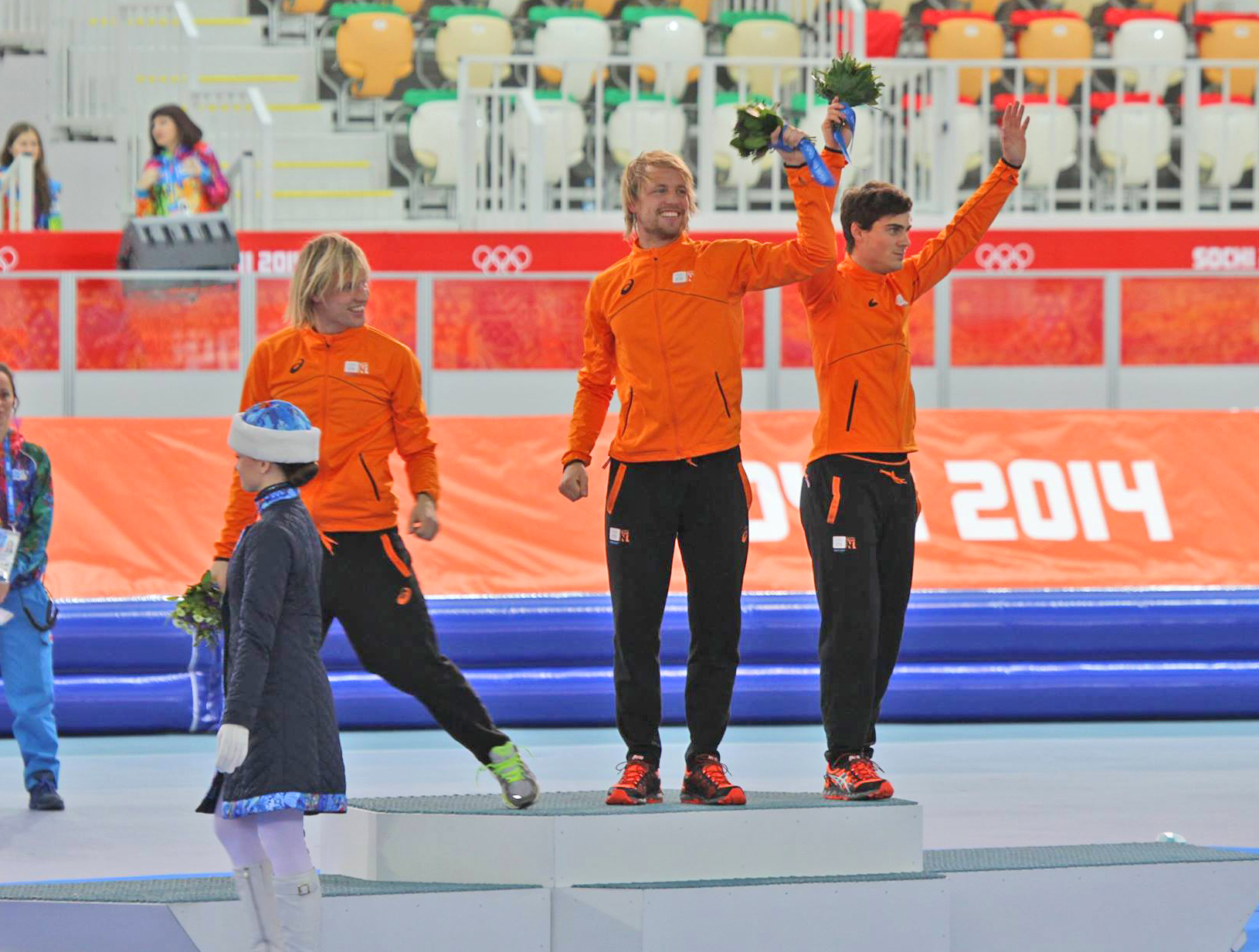 Men's 500m, 2014 Winter Olympics, Podium.Ronald Mulder (bronze) Michel Mulder (gold) and Jan Smeekens (silver)